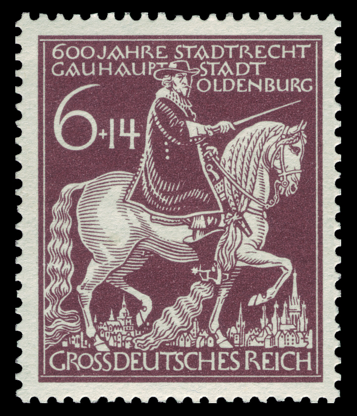 600 years of incorporate town privileges to Oldenburg Graphics by Ernst Rudolf Vogenauer Ausgabepreis: 6+14 Pfennig First Day of Issue / Erstausgabetag: 6. Januar 1945 Michel-Katalog-Nr: 907 (Deutsches Reich)